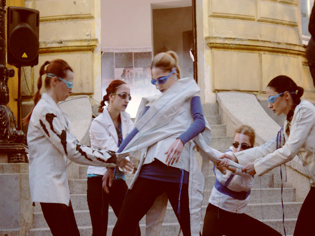 World Water Day, activstic street performance Student Cultural center 2011